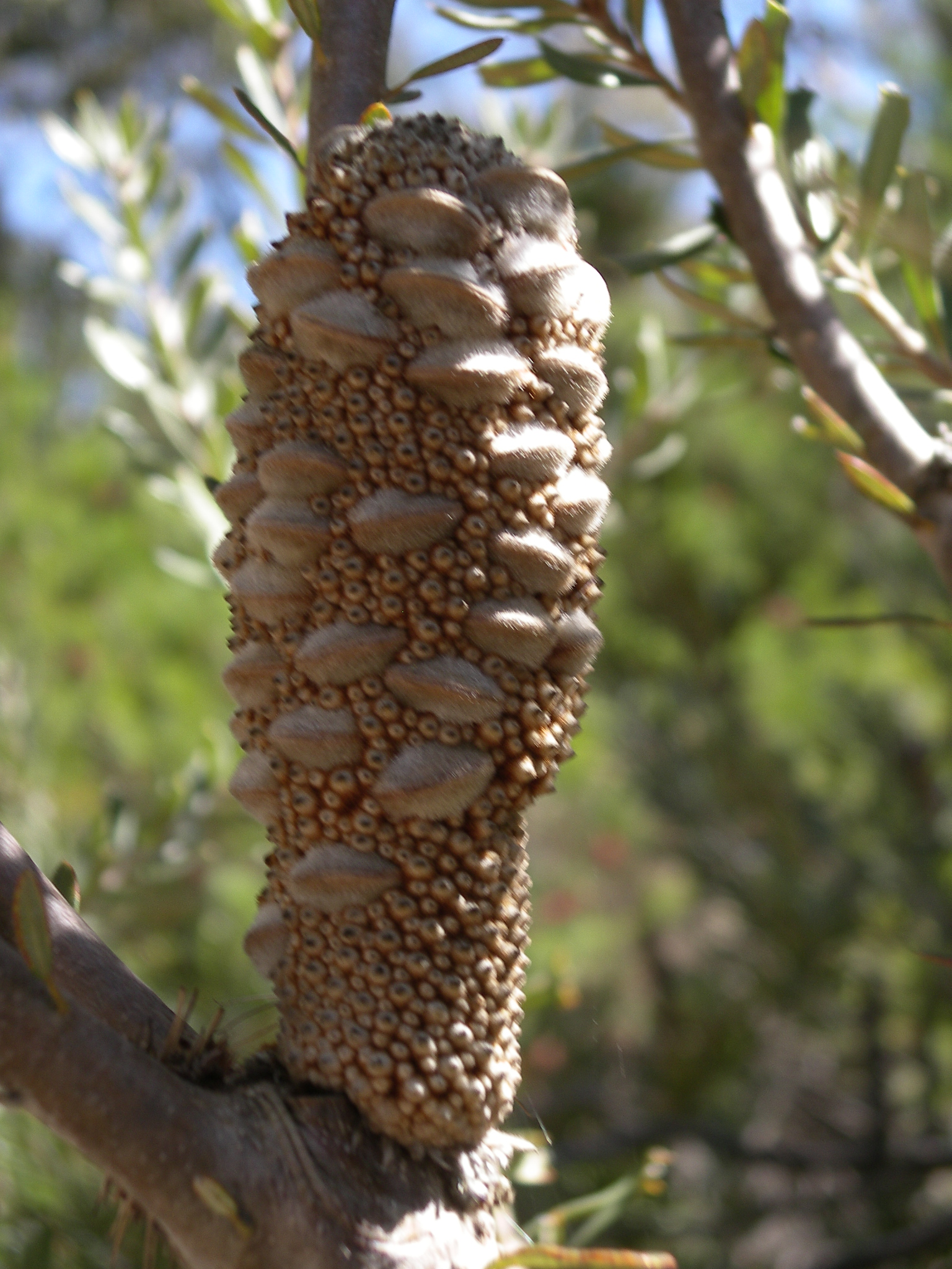 ' infructescence, Australian National Botanic Gardens, Canberra